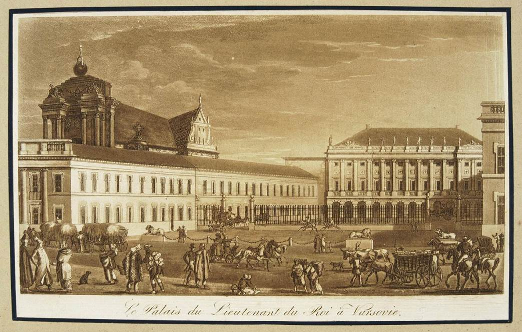 Namiestnikowski Palace in Warsaw by Fryderyk Dietrich